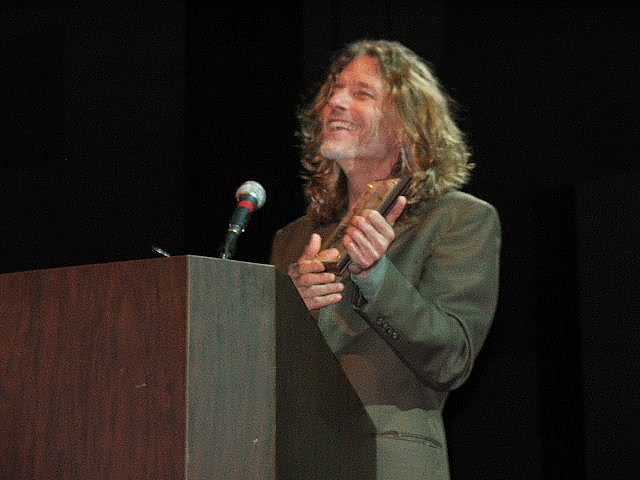 Mark Andes receiving an award from the Austin Music Awards. Photo by Ron Baker.